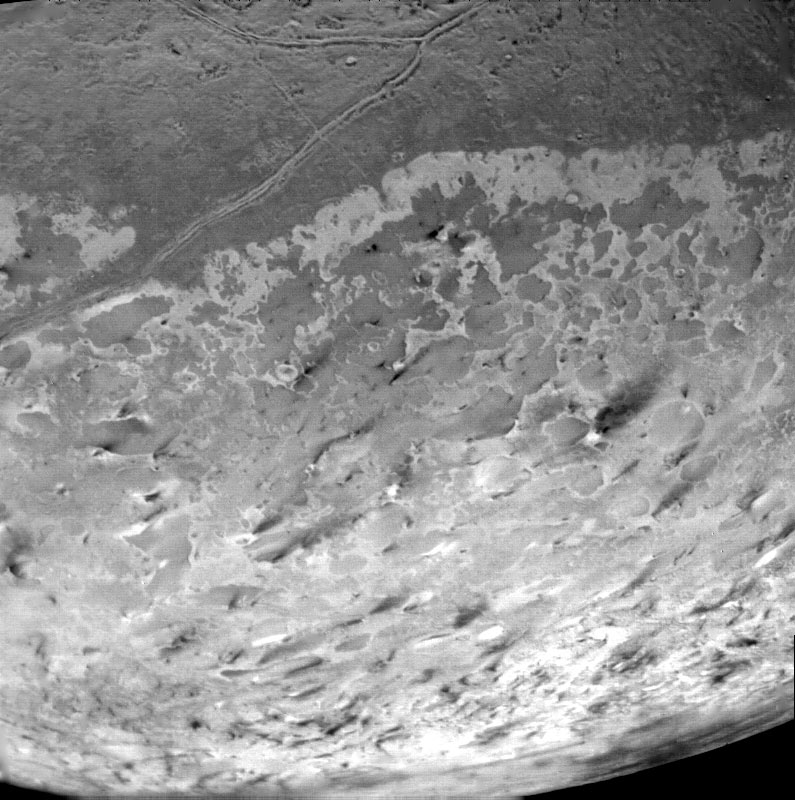 Triton's south polar terrain photographed by the Voyager 2 spacecraft. About 50 dark plumes mark what may be ice volcanoes. This version has been losslessly rotated 90 degrees counterclockwise.